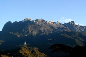 Mount Kinabalu, 3rd tallest mountain in S E Asia. Shot using an Olympus 2000Z digital camera in 2000. Photographer : User:Willsmith